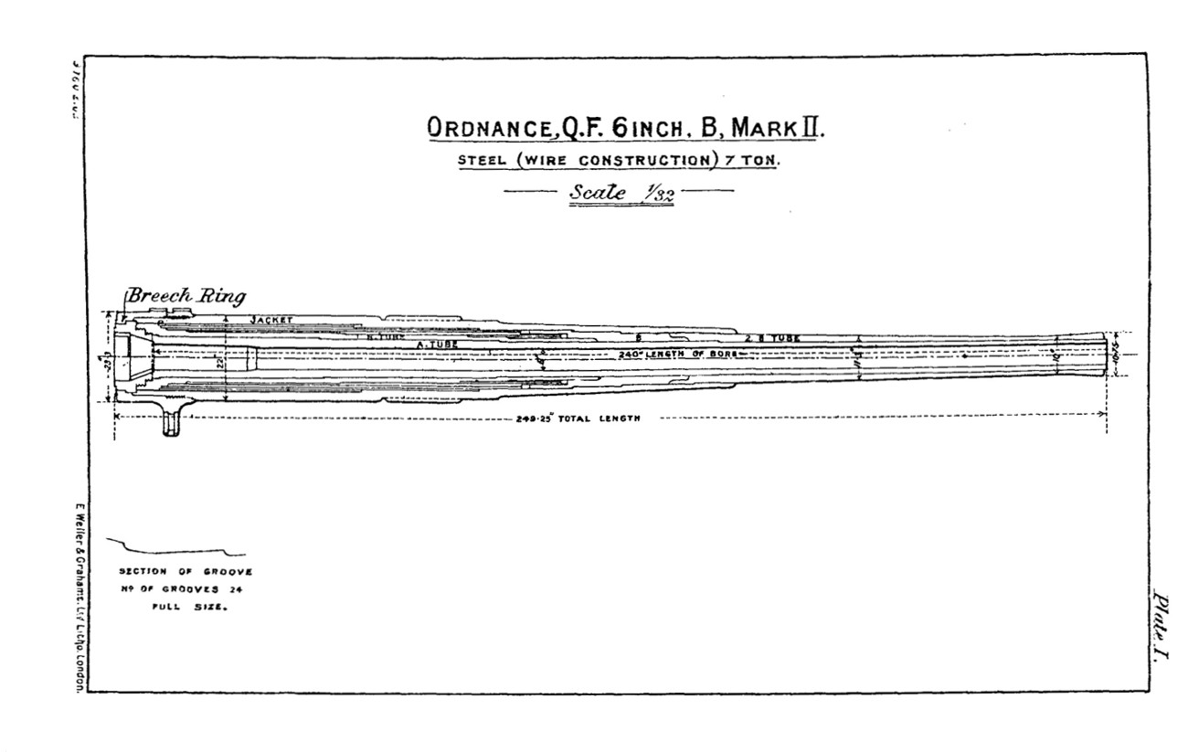 Diagram showing construction of British QF 6-inch B Mark II gun.